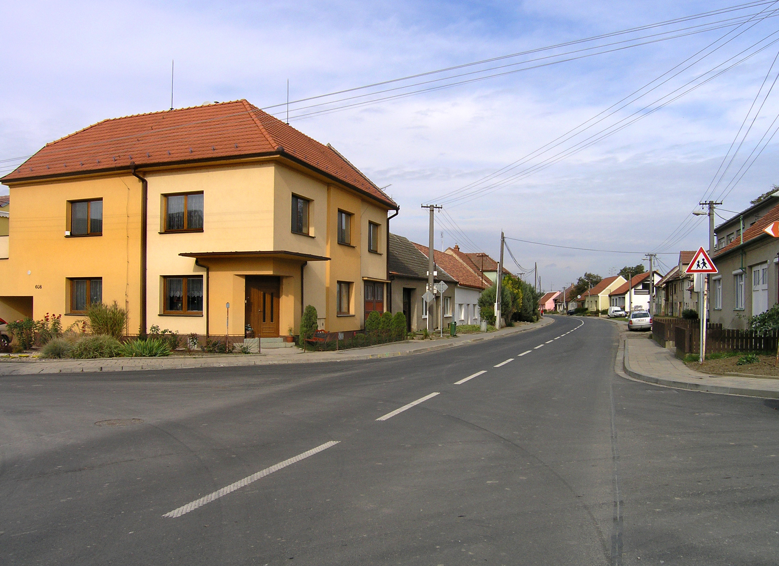 Main street in Kobylí village, Czech Republic